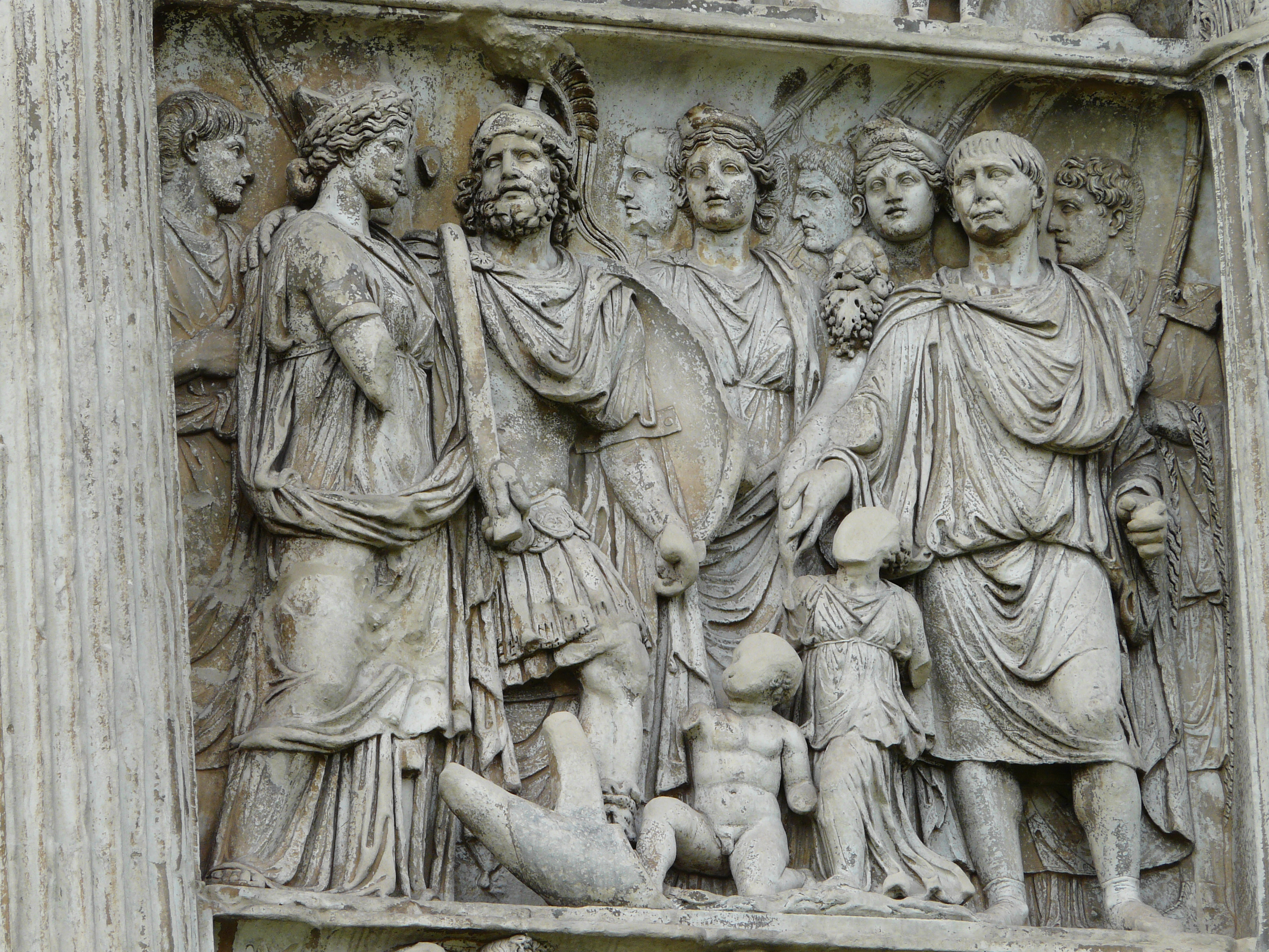 Arch of Trajan (Benevento) - detail